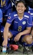 Marisa Park with the Philippines women's national football team in 2013.